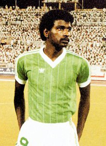 Majed Abdullah in 1984